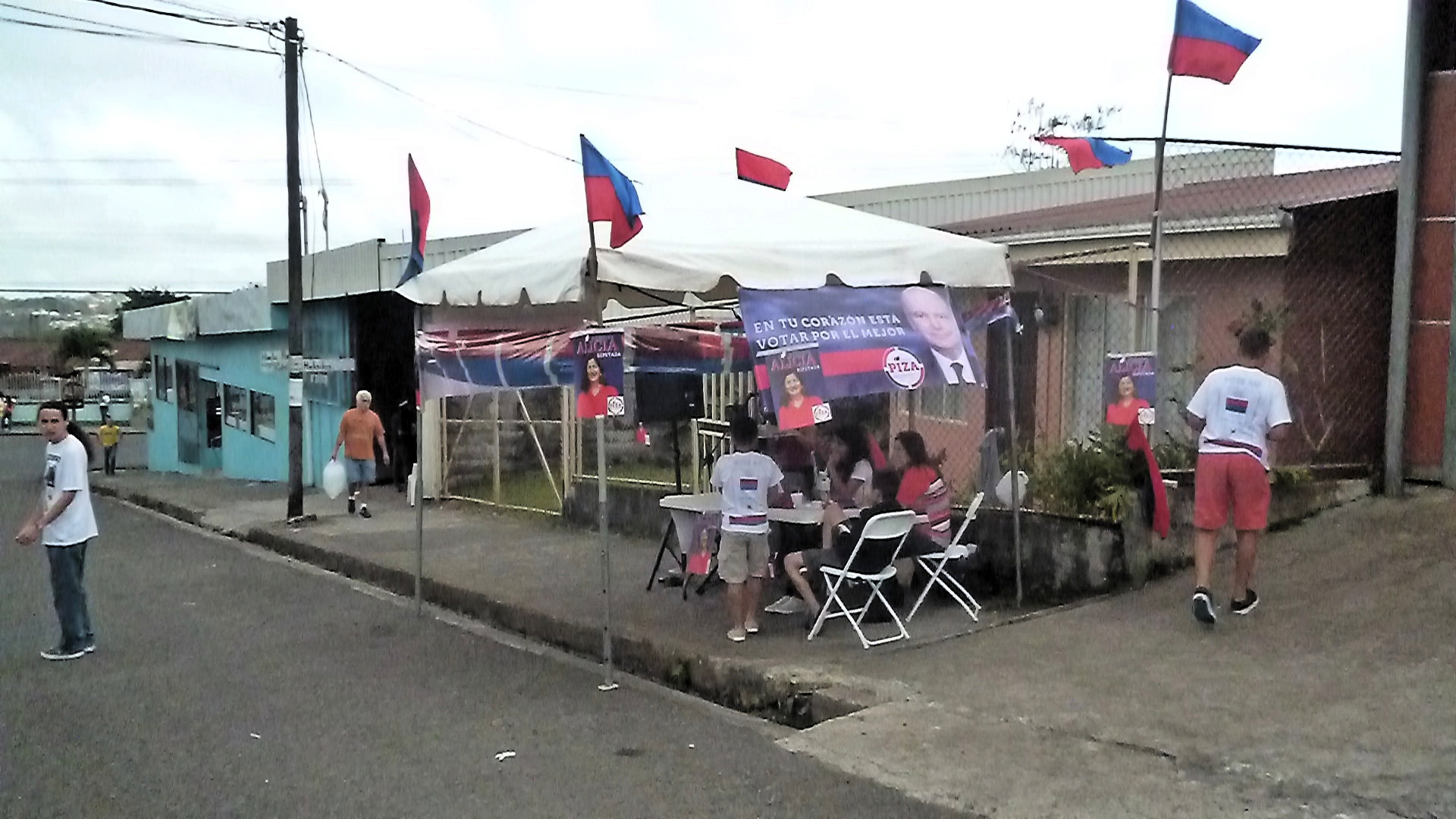 Social Christian Unity spot at Quesada during Costa Rican general election, 2014.